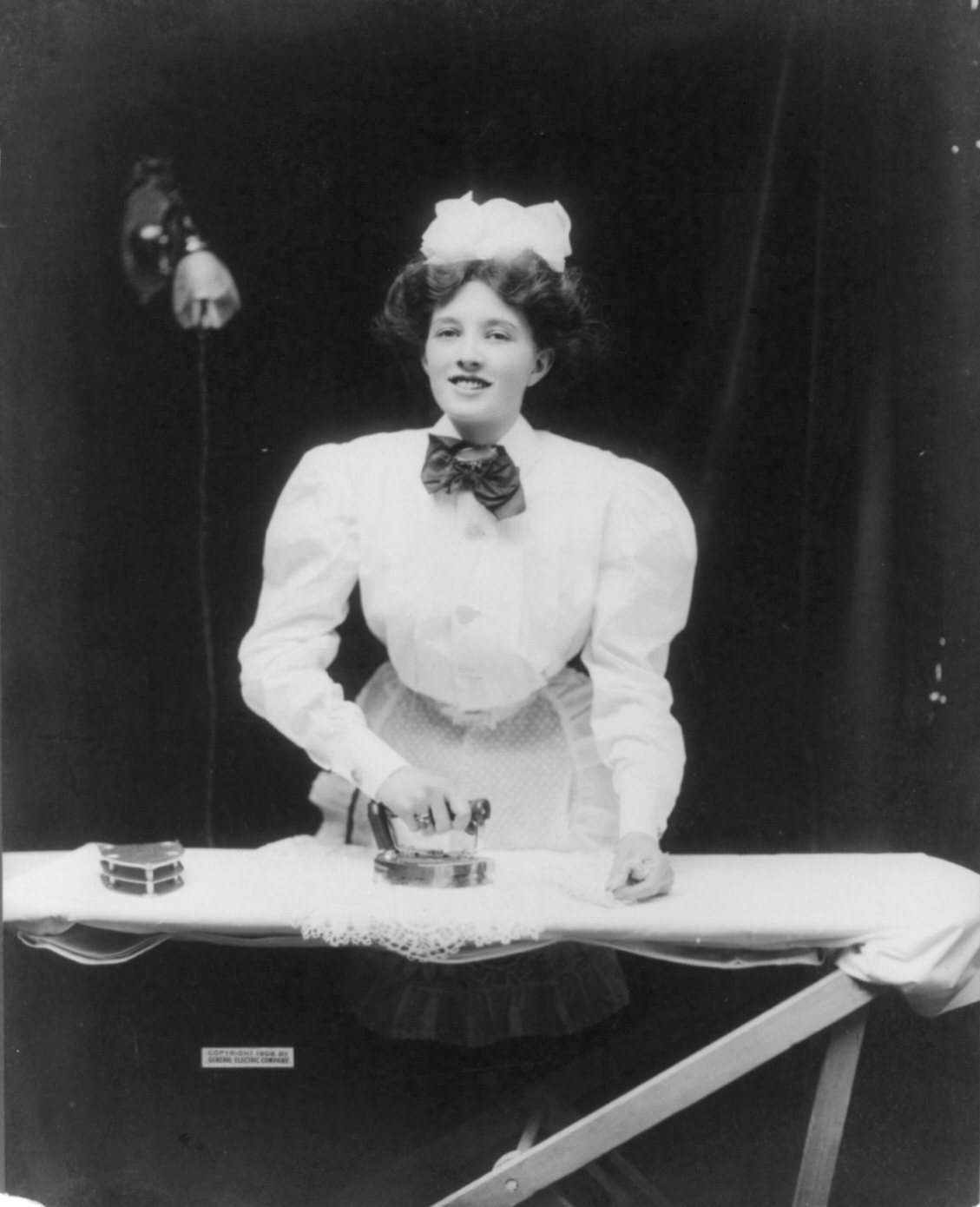 House maid ironing a lace doily with GE electric iron